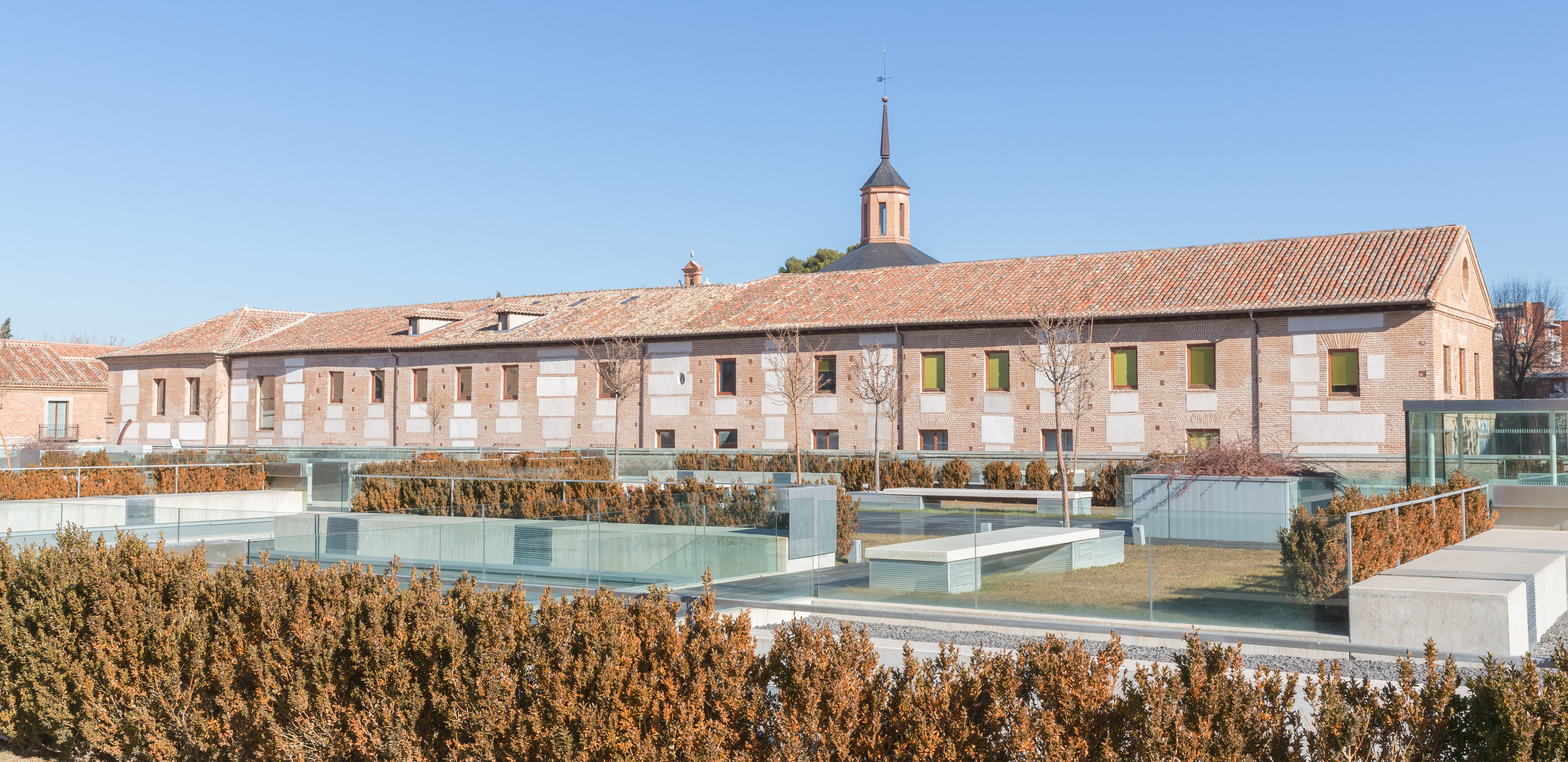 Parador of Alcalá de Henares, Spain